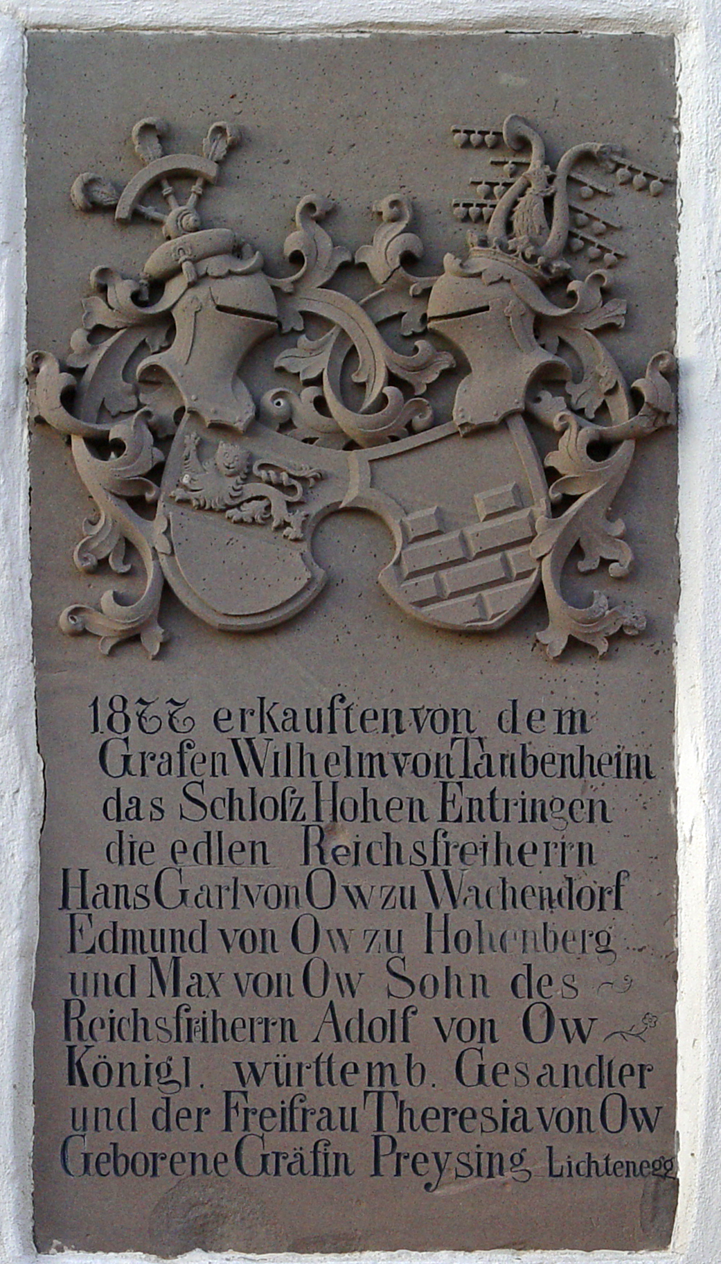 Germany. Castle Hohenentringen. Stone when the castle was sold in 1877 to the von Ow Wachendorf family.